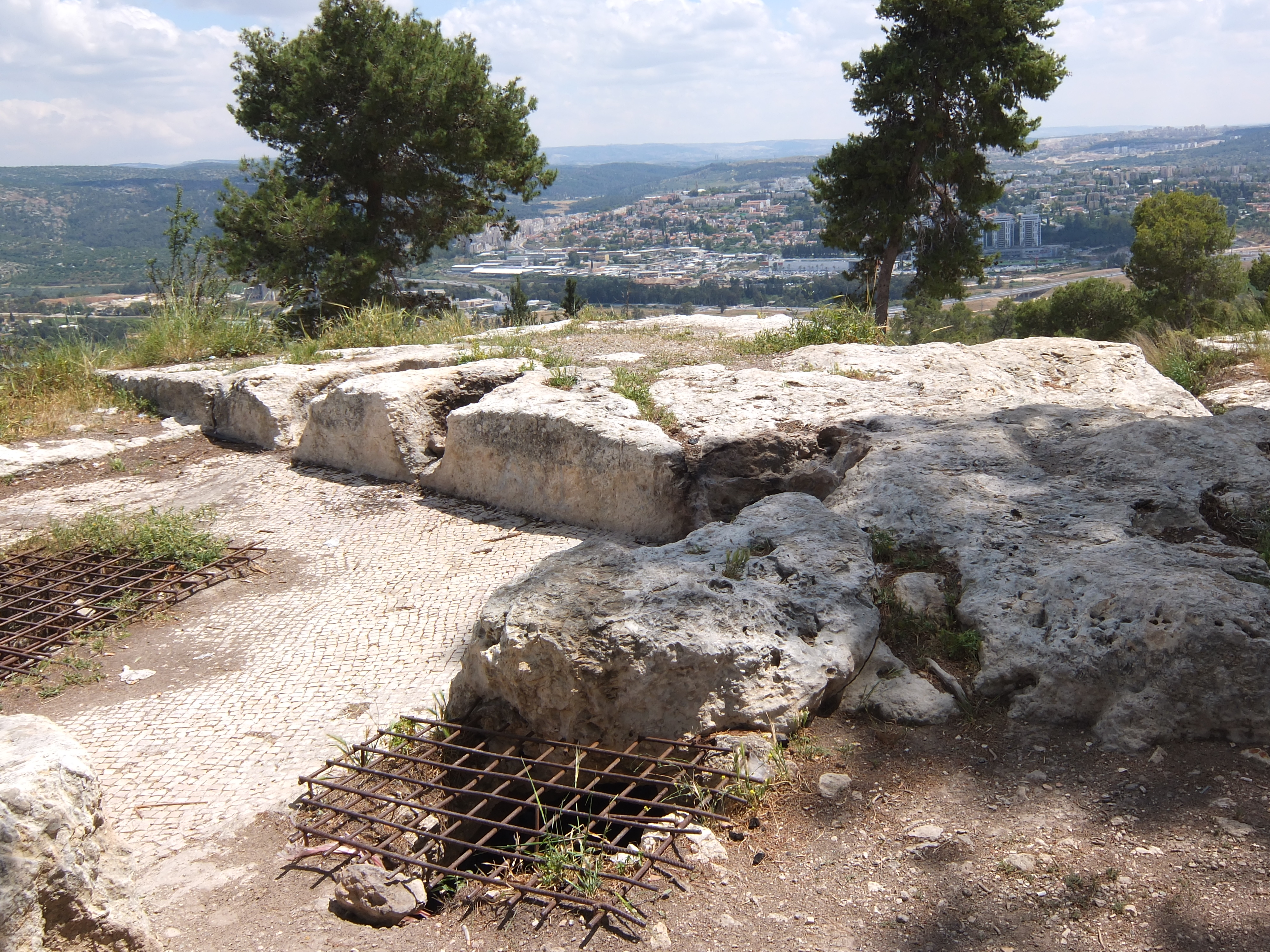 Zorah, near Beit Shemesh